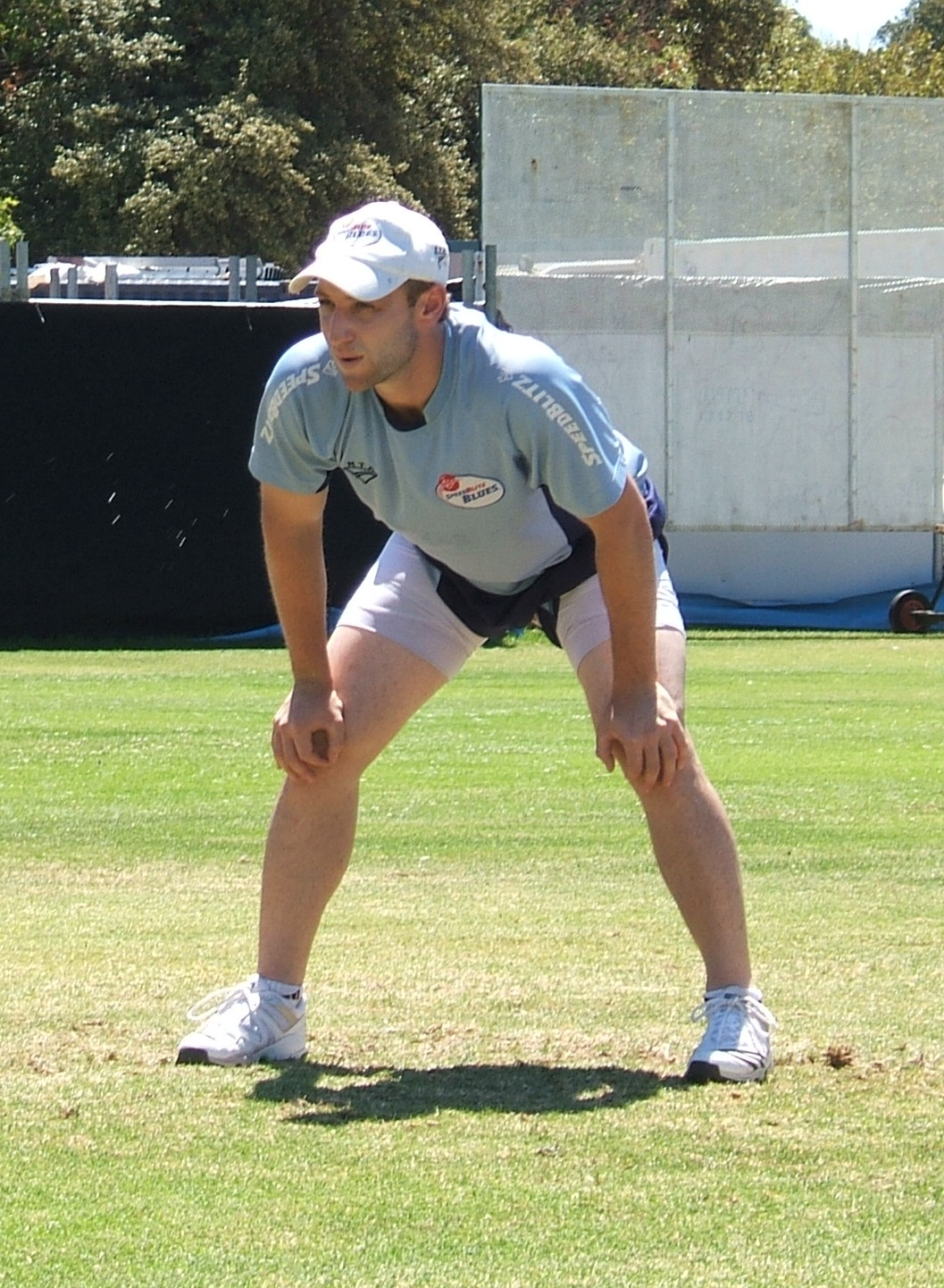 Phil Hughes at Adelaide Oval nets/training ground.